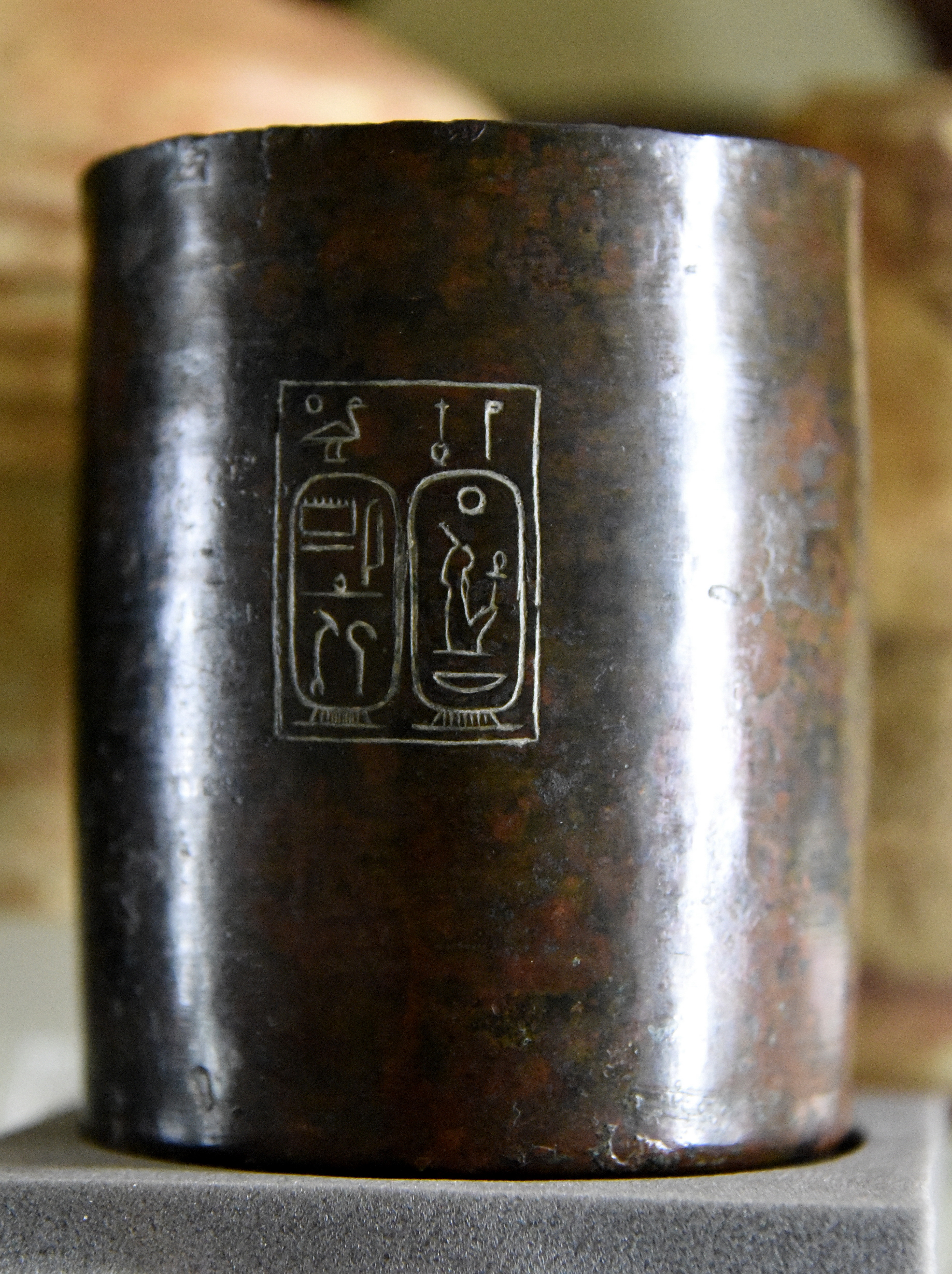 Bronze vessel used for measuring capacity. Inscribed with the cartouches of the birth-name and throne name of Amenhotep III. 18th Dynasty. From Egypt. The Petrie Museum of Egyptian Archaeology, London. With thanks to the Petrie Museum of Egyptian Archaeology, UCL.